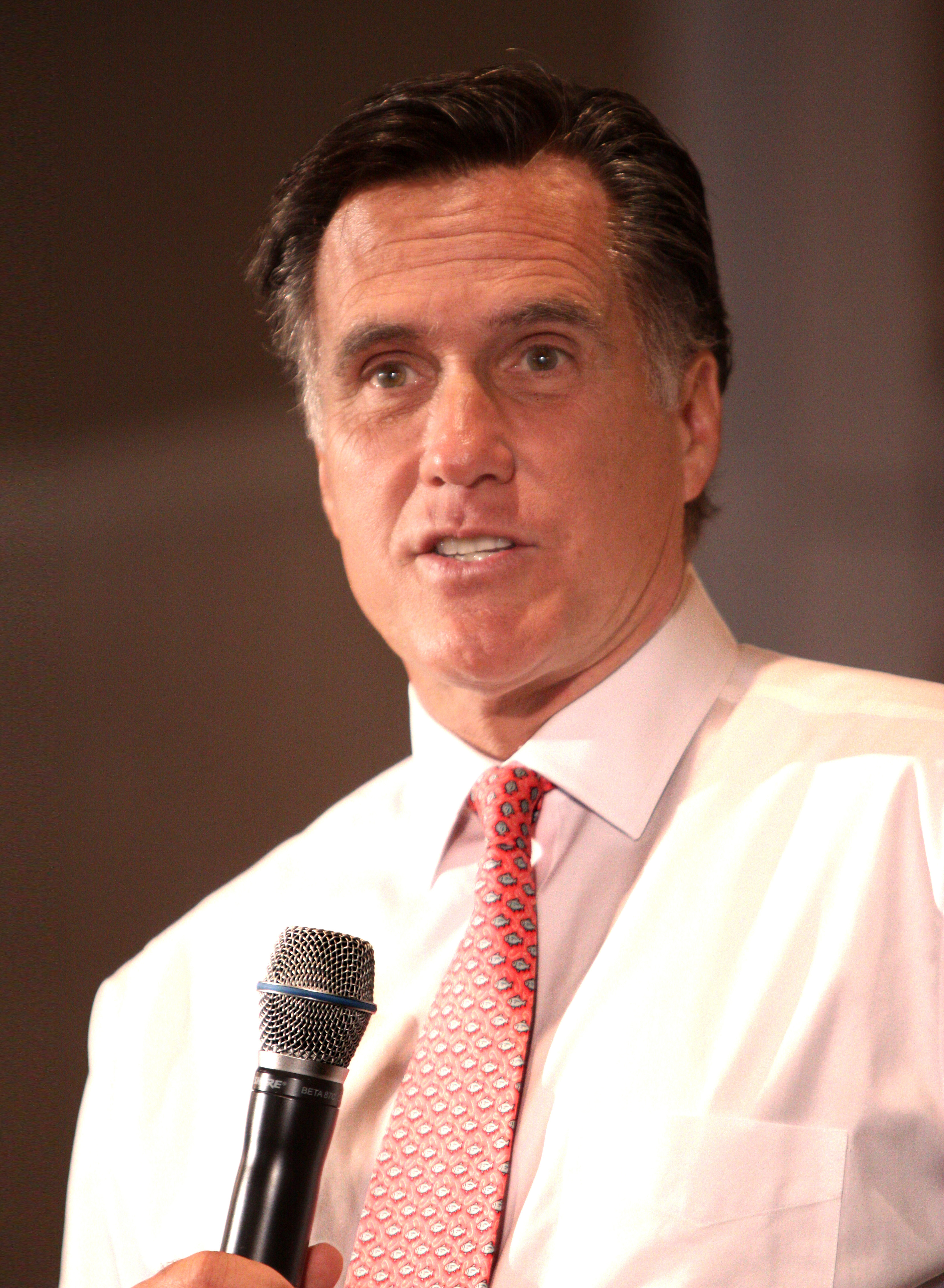 Mitt Romney speaking in Sun Lakes, Arizona on September 14, 2011.